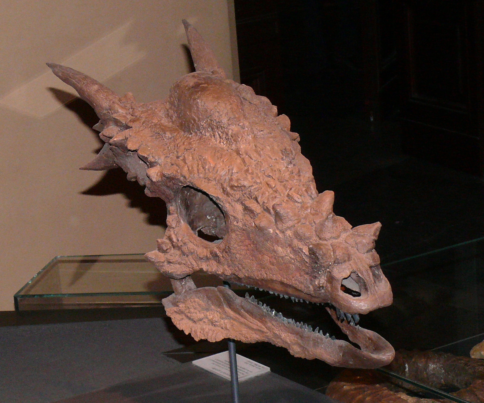 Museum für Naturkunde Berlin. Fossil Stygimoloch spinifer skull. North Dakota, USA; 66 million years old